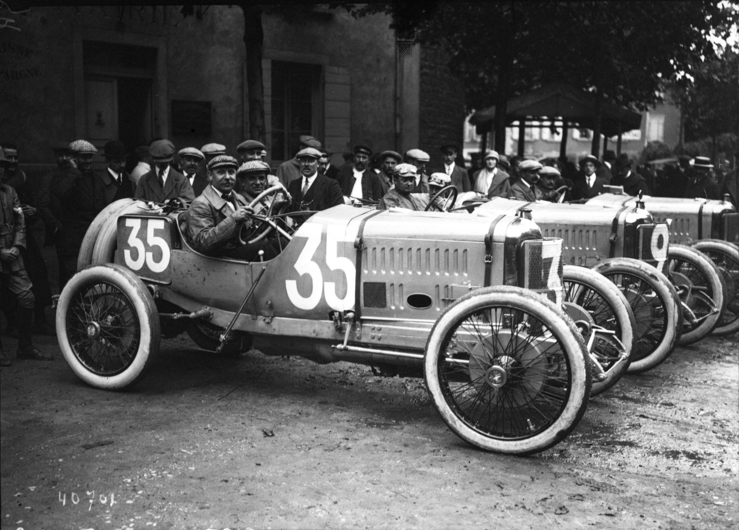 Arthur Duray at the 1914 French Grand Prix driving a Delage